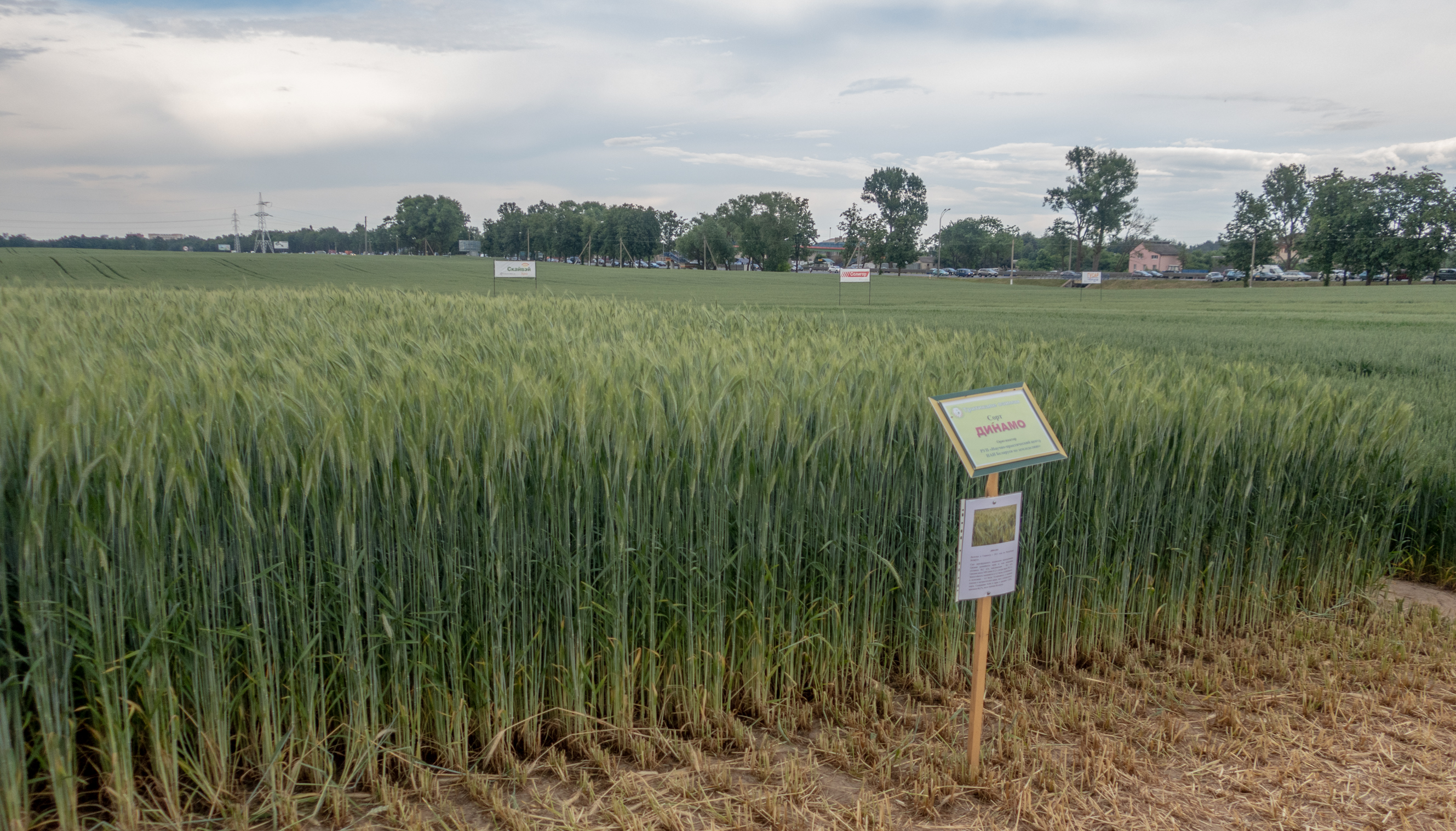 Winter triticale breed "Dynamo". Experimental and demonstration planting at the exhibition "Belagro-2019"